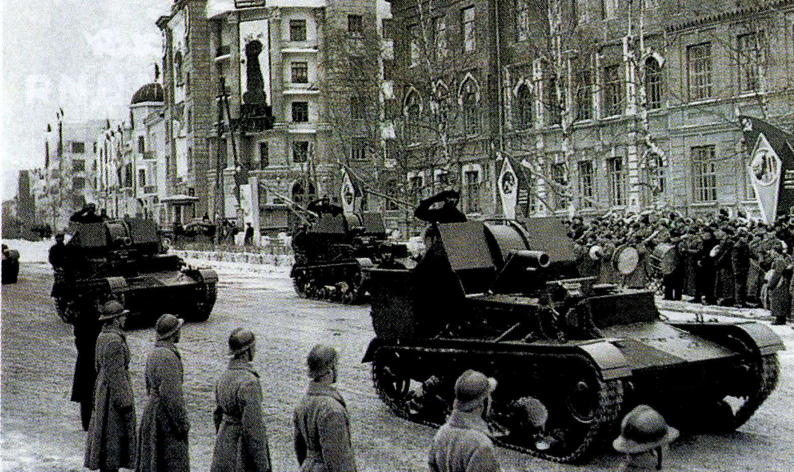 Military parade in Khabarovsk (1936).